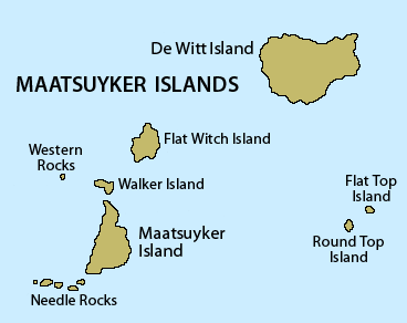 Map of the Maatsuyker Islands near Tasmania